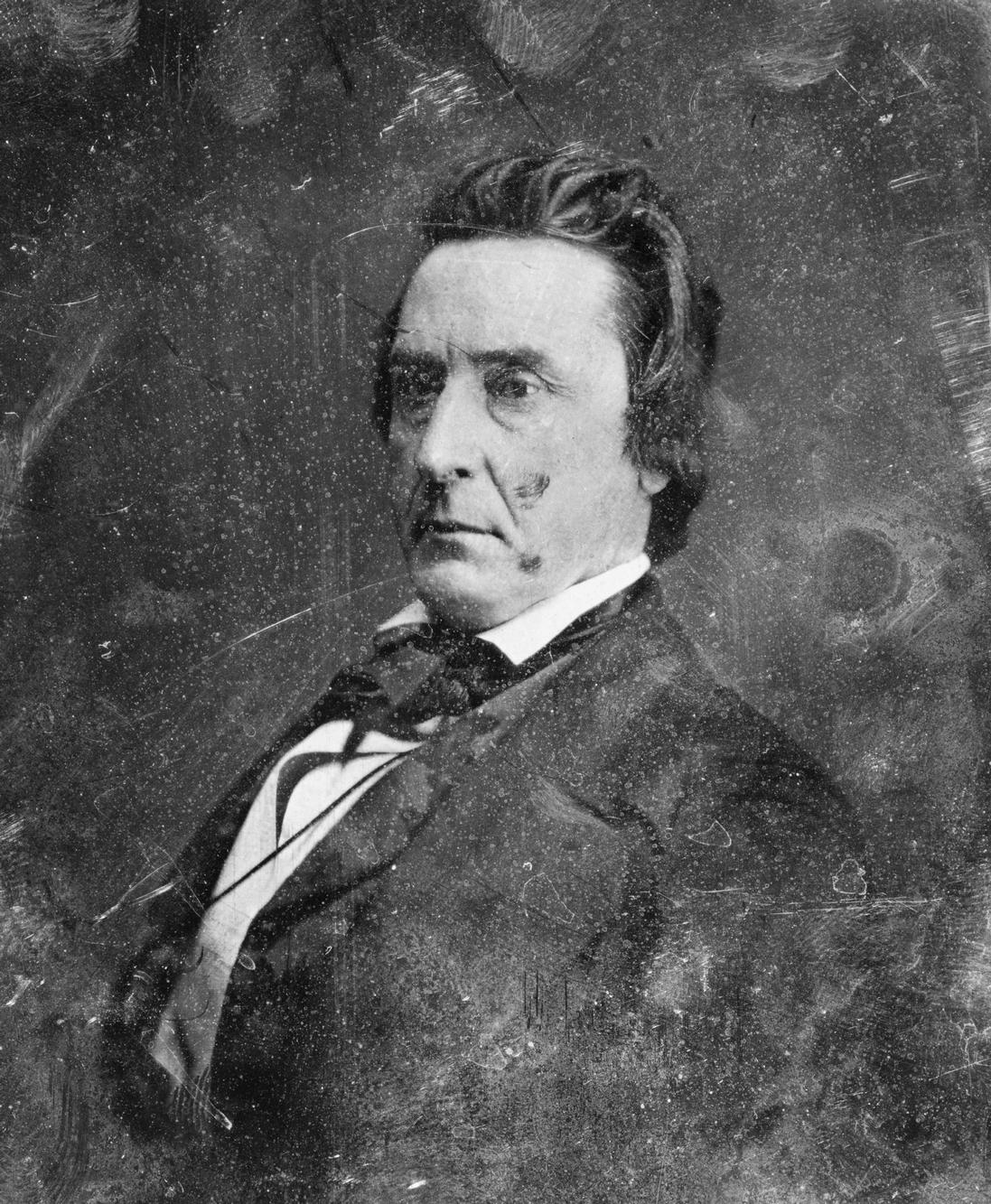 David Rice Atchison ( August 11, 1807 – January 26, 1886) was a mid-19th century Democratic United States Senator from Missouri. Frequently serving as President Pro Tempore of the Senate, he is probably best known as the focus of an urban legend claiming that, for one day, he was de jure President of the United States.